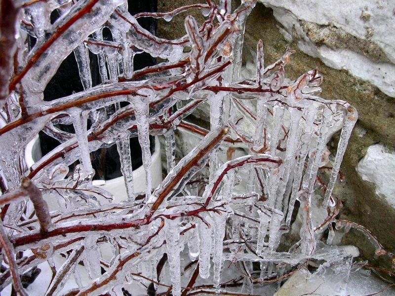 Ice and icicles on a bush./ Gefrorenes Wasser auf einem Baum